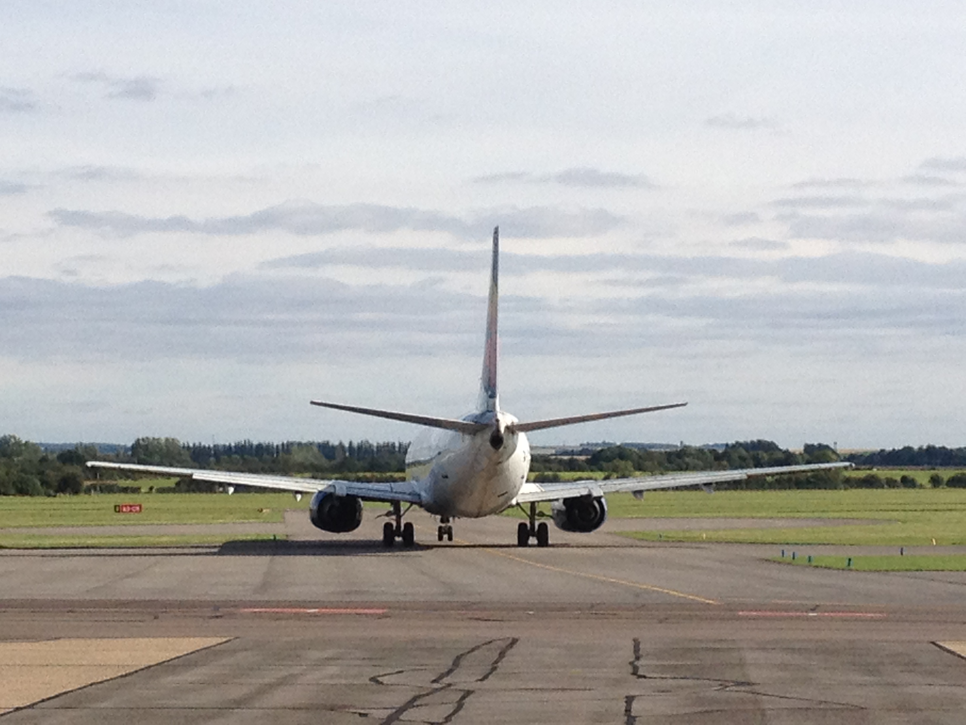 Holiday charters operate seasonally at CBG to European destinations.